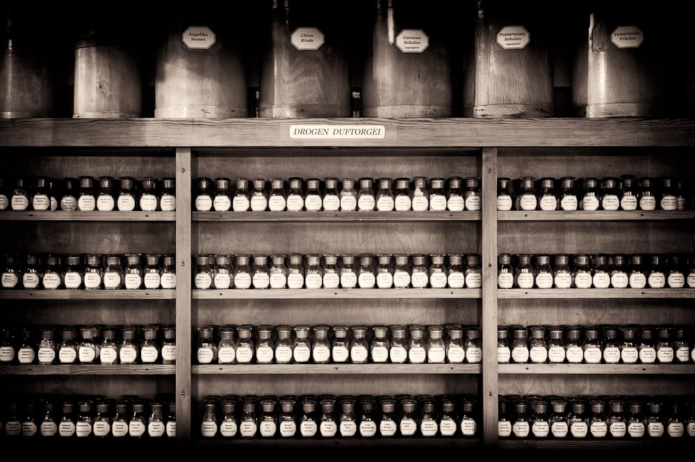 Drogenduftorgel